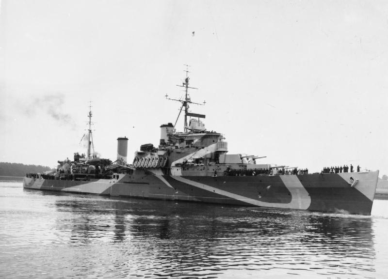 British light cruiser HMS BERMUDA underway.